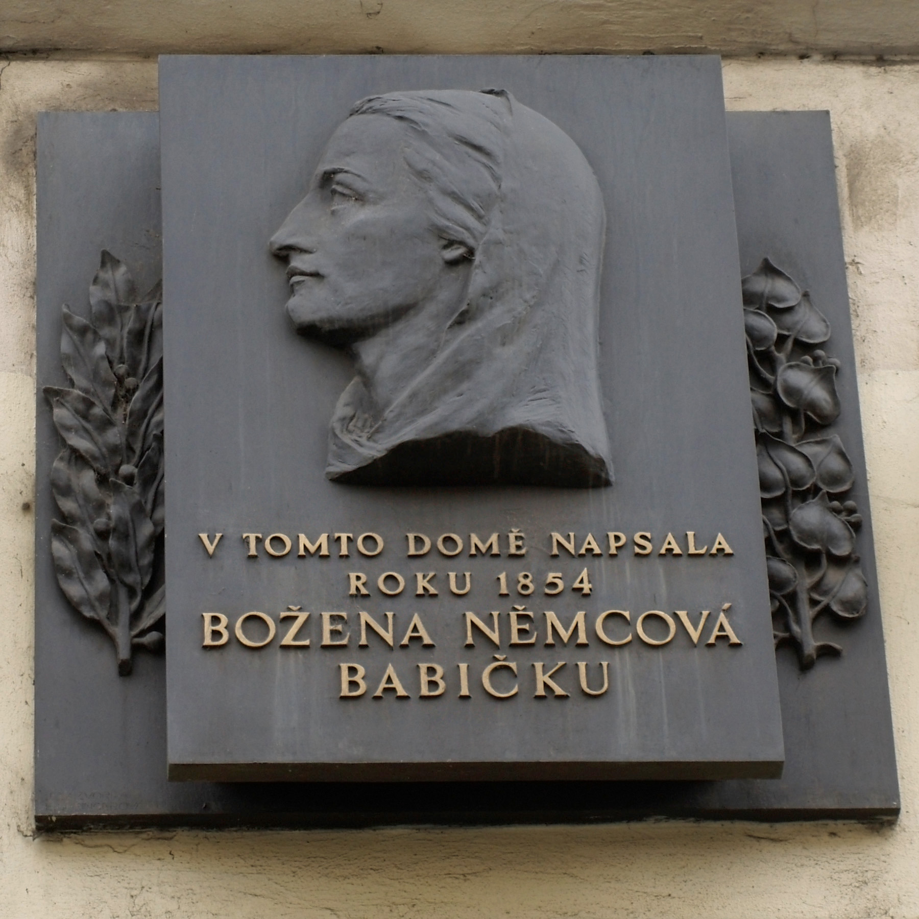 Bronze plaque of Czech writer Božena Němcová on the house where she wrote her famous novel The Grandmother (1854)